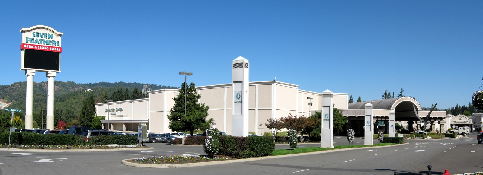 Entrance to Seven Feathers Hotel & Casino Resort in Canyonville, Oregon. Stitched panorama from public property.